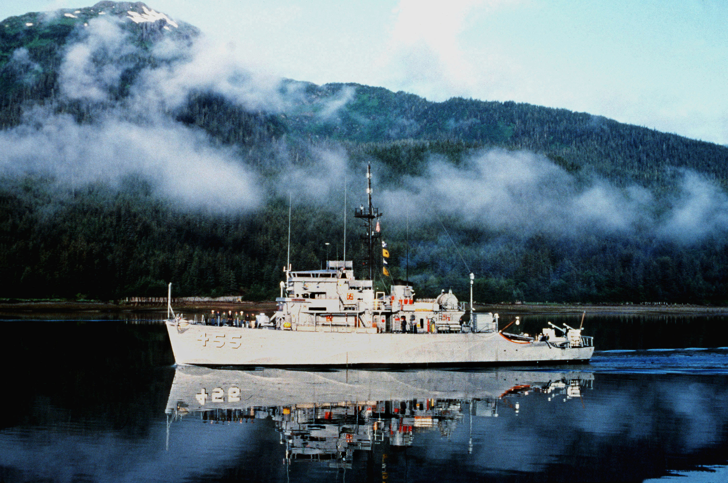 A port bow view of the ocean minesweeper USS IMPLICIT (MSO 455) underway near the coastline in the early morning. The ship is assigned to the Naval Reserve Force (NRF).